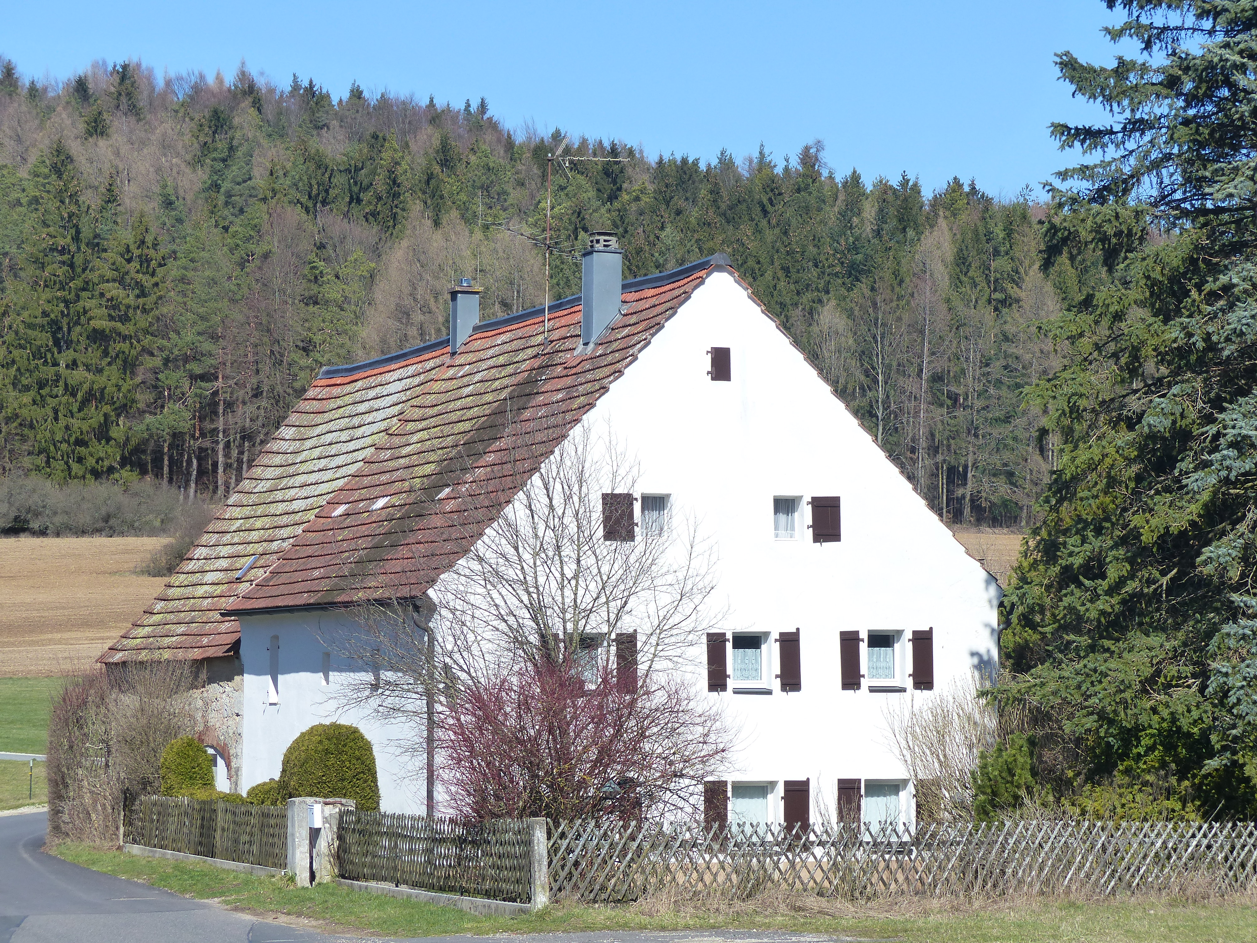 A former farmhouse with the house number 7 in the village Tabernackel, a district of the municipality Etzelwang